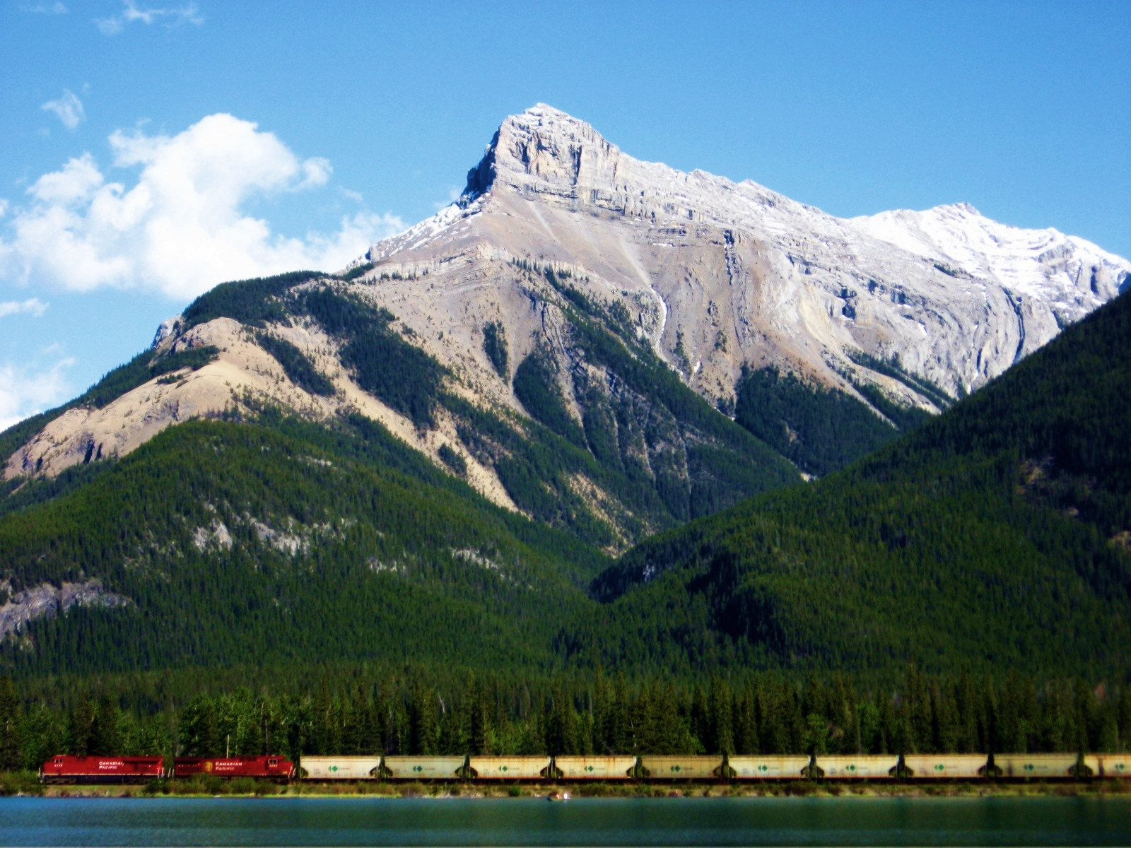 Mount McGillivray with train seen from Gap Lake. Alberta Canada